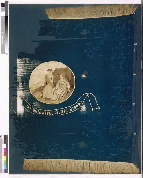 The first official flag of the Sixth North Carolina. Presented to the men by Christine Fisher who was Colonel Charles F. Fishers sister. This flag went into battle with the Sixth at the battle of First Manassas where Colonel Fisher was killed.